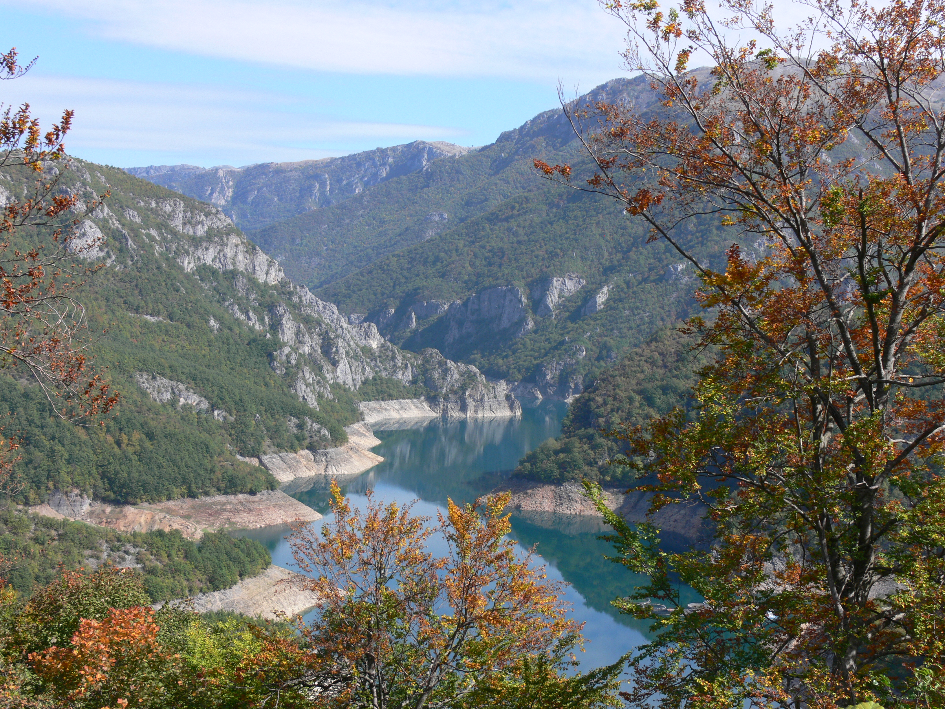 Southern part of Pivsko jezero, artificial lake near Pluzine, Montenegro; picture taken near Pivski Manastir (Pivski Monastery)